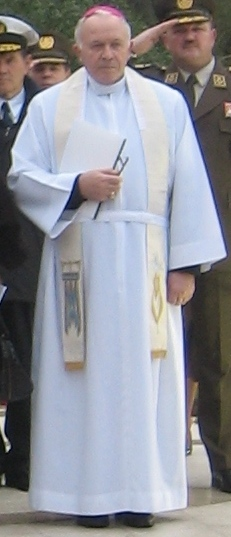 Juraj Jezerinac